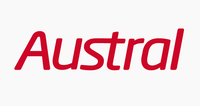 Logo for the Argentine airline Austral.